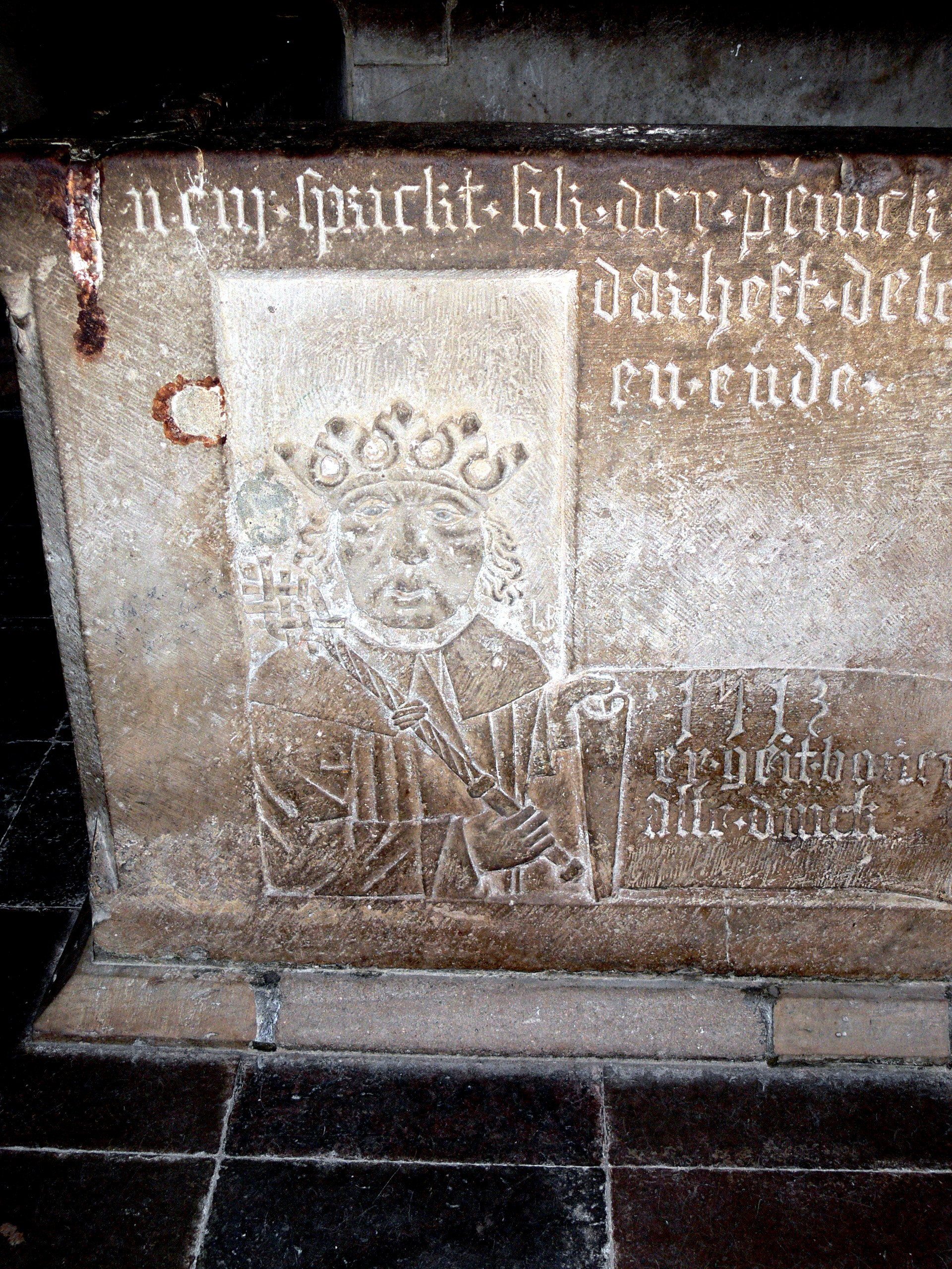 Lund Cathedral ( Sweden ). Crypt: Fountain basin ( 1513/14 ) by Adam von Düren with satirical relief of a king and Low Saxon inscription.